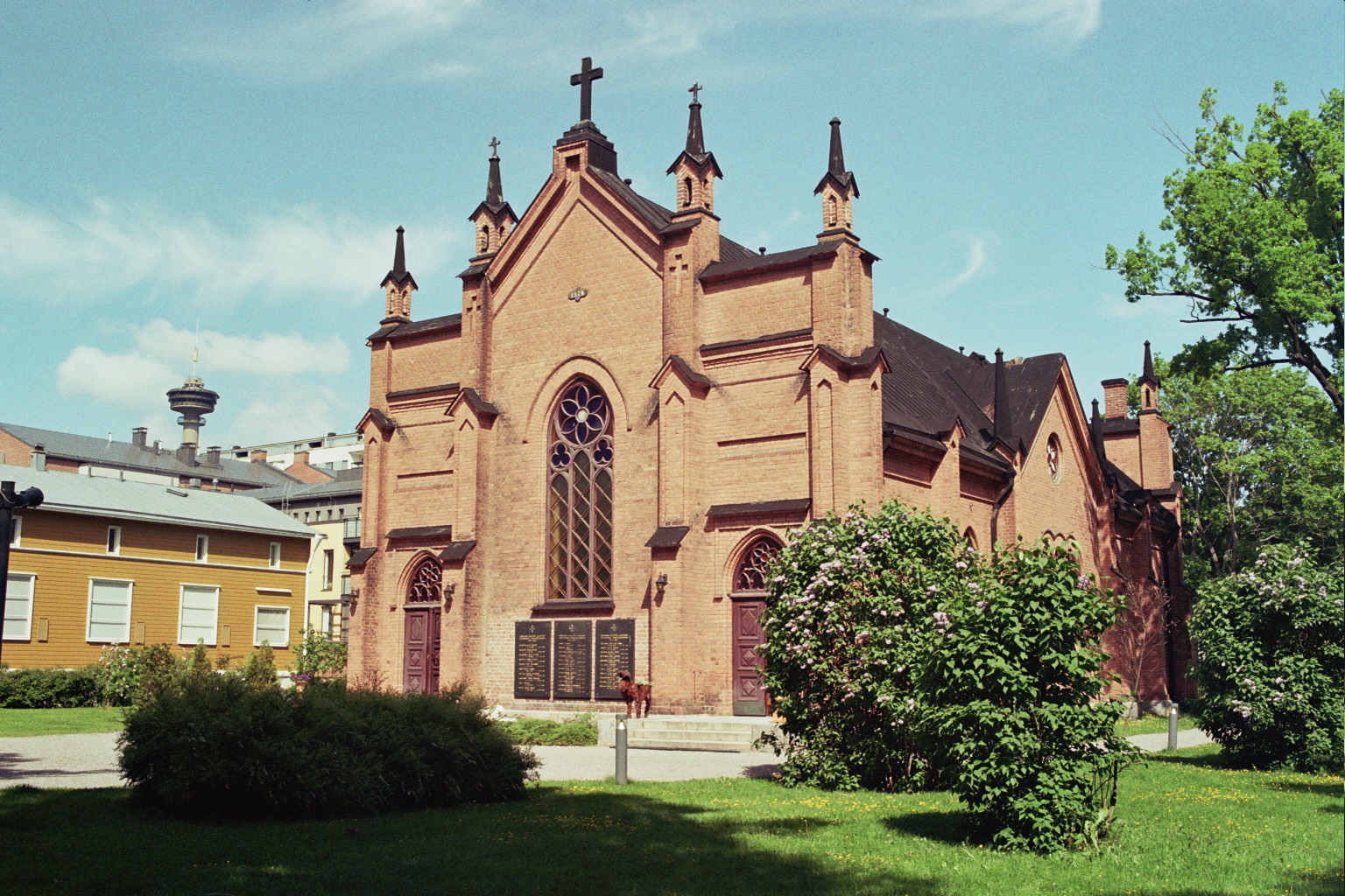 The church of Finlayson in central Tampere, Finland. Designed by architect F. L. Calonius, the church was constructed in 1879 for the personnel of the Finlayson textile factory.